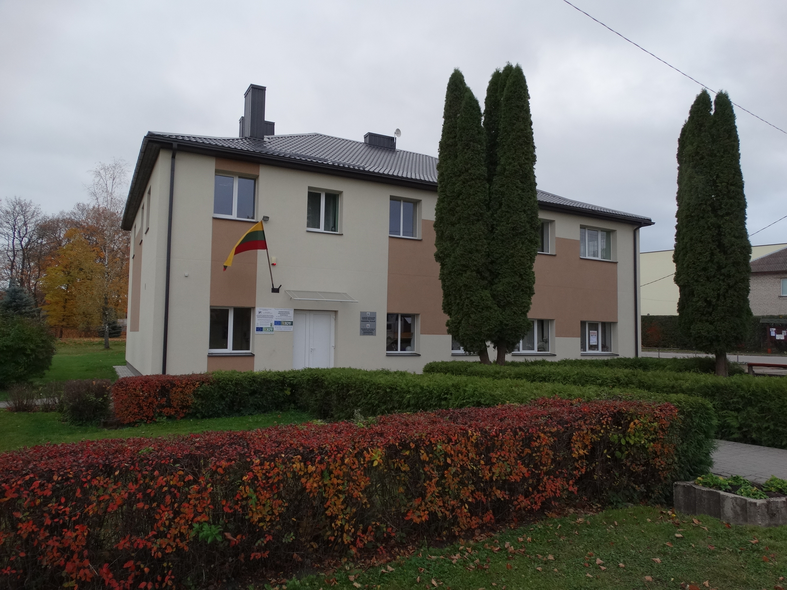 Eldership, Sangrūda, Kalvarija Municipality, Lithuania